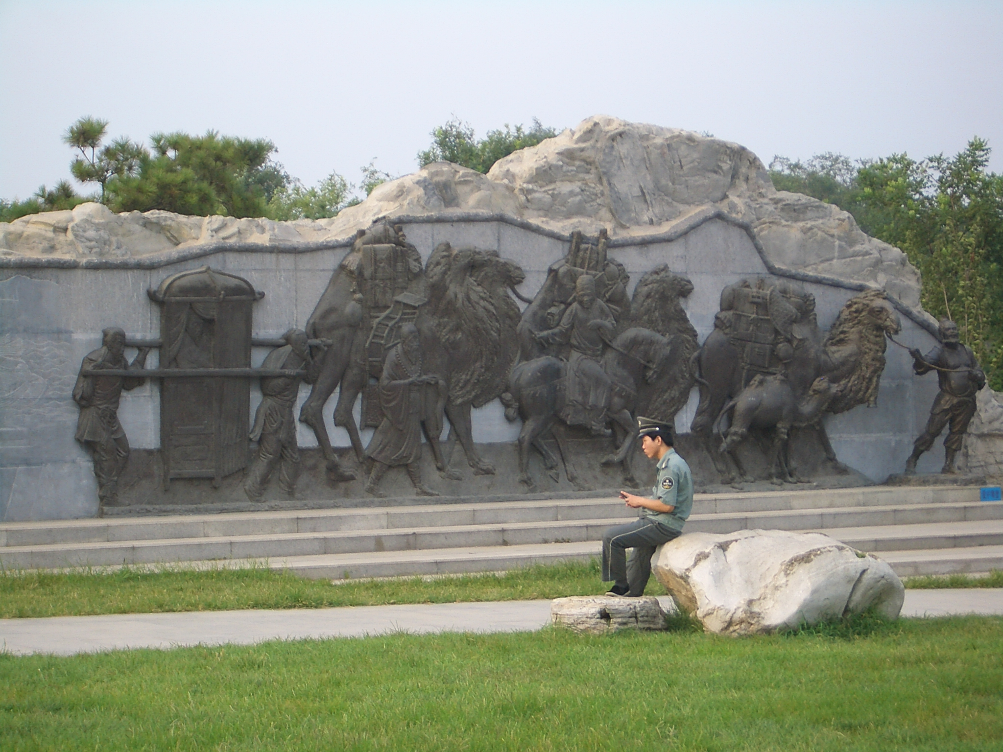 A relief sculpture of a camel caravan on the plaza at the eastern end of Marco Polo Bridge (and the western gate of Wanping Castle)